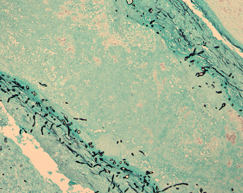 Photomicrograph of fungal infection of brain tissue